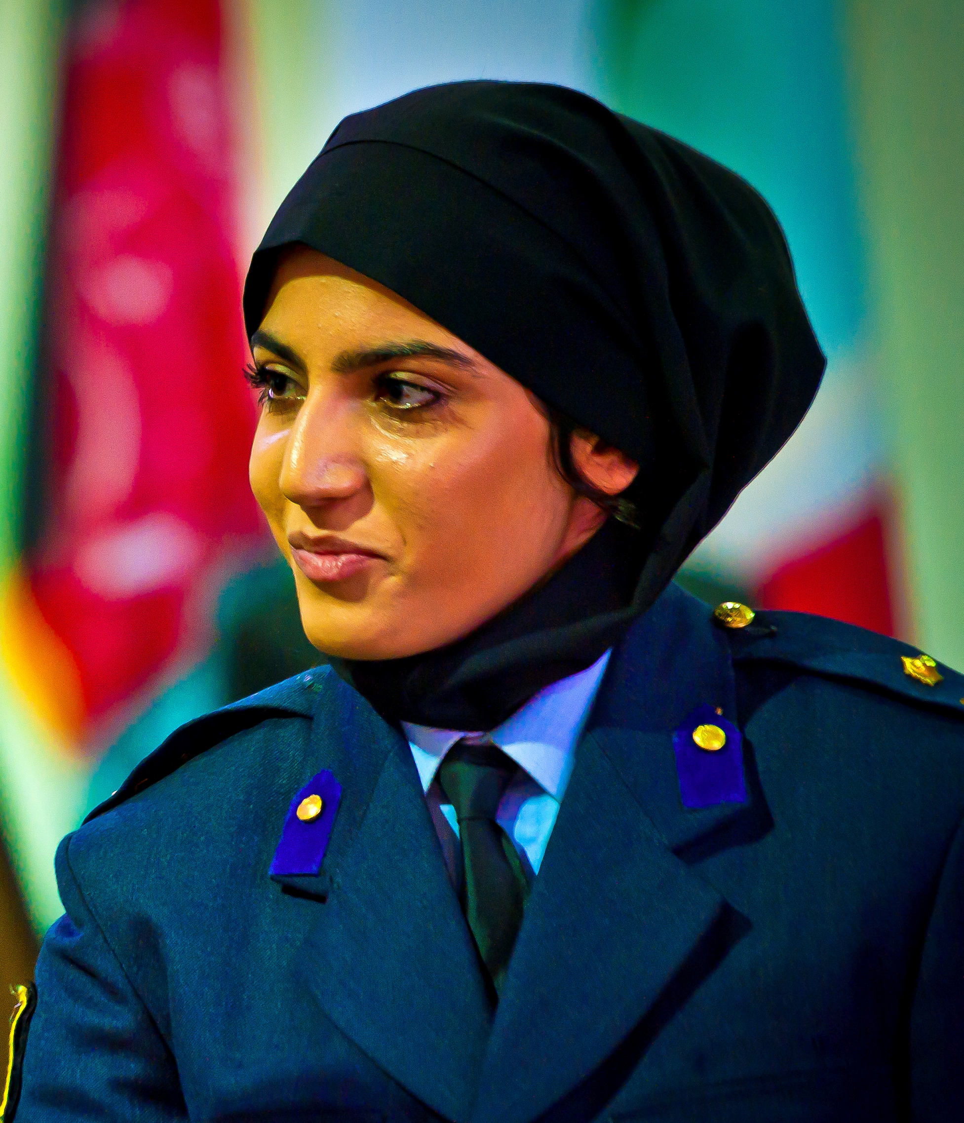 Afghan air force 2nd Lt. Niloofar Rhmani accepts her pilot wings at a ceremony May 14, 2013, at Shindand Air Base, Afghanistan, as she graduates undergraduate pilot training. Rhmani made history May 14, 2013, when she became the first female to successfully complete undergraduate pilot training and earn the status of pilot in more than 30 years. She will continue her service as she joins the Kabul Air Wing as a Cessna 208 pilot. (Photo ID: 935182)